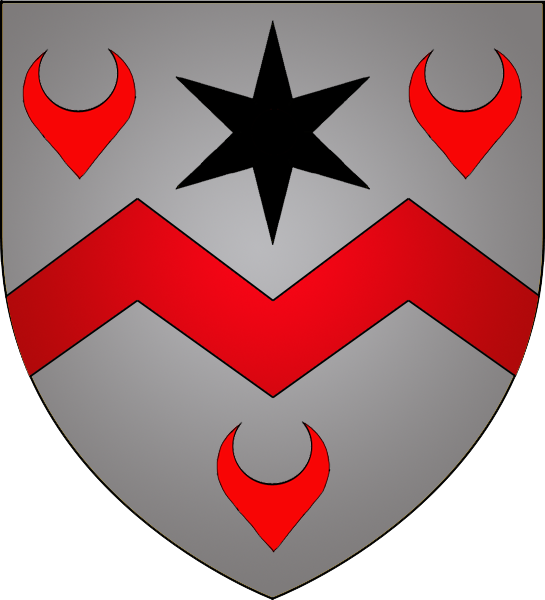 Coat of arms of the municipality of Hoscheid, Luxembourg (valid until 1 January 2012)